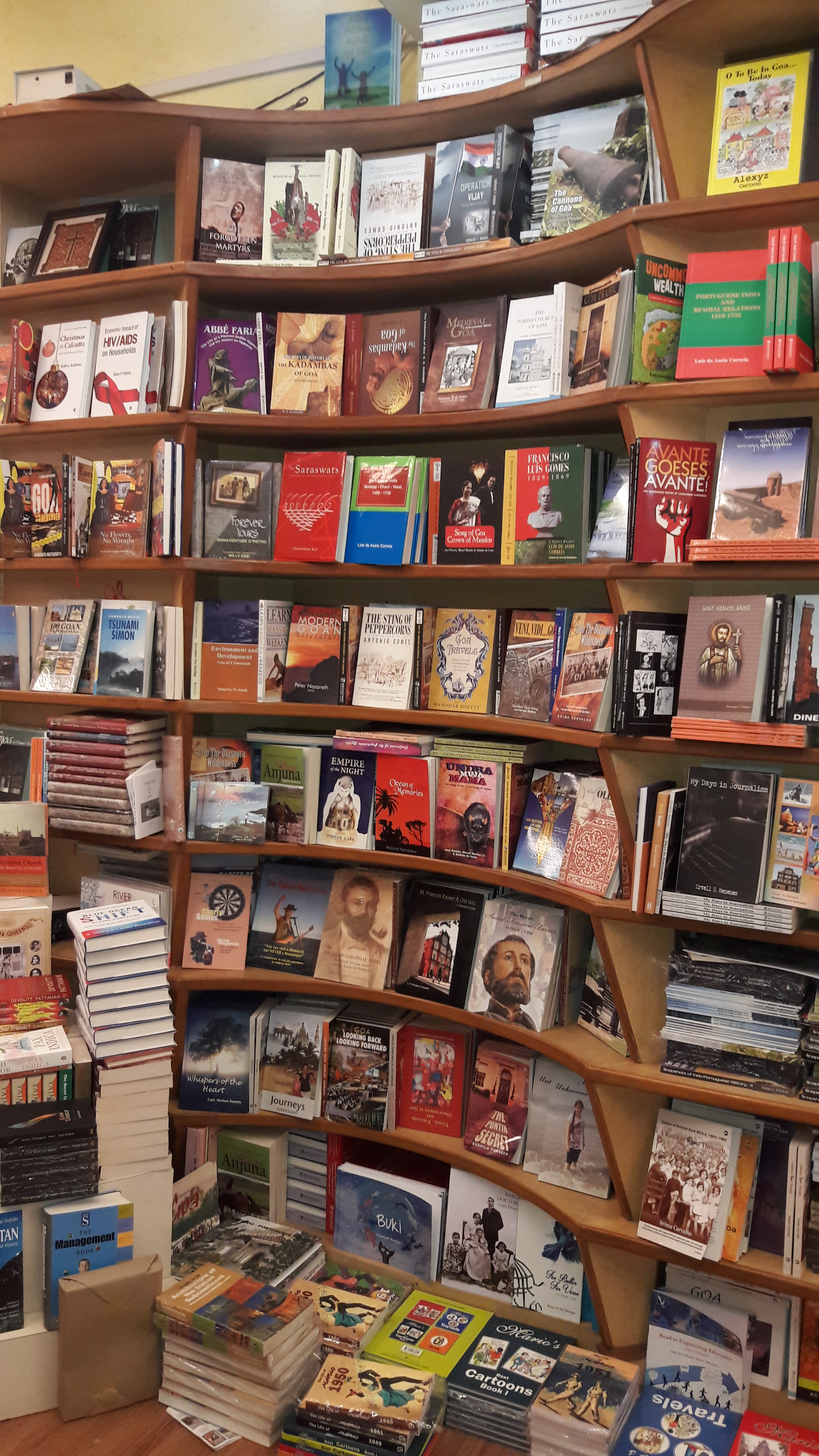 Goan Literature in Broadway bookstore Panjim